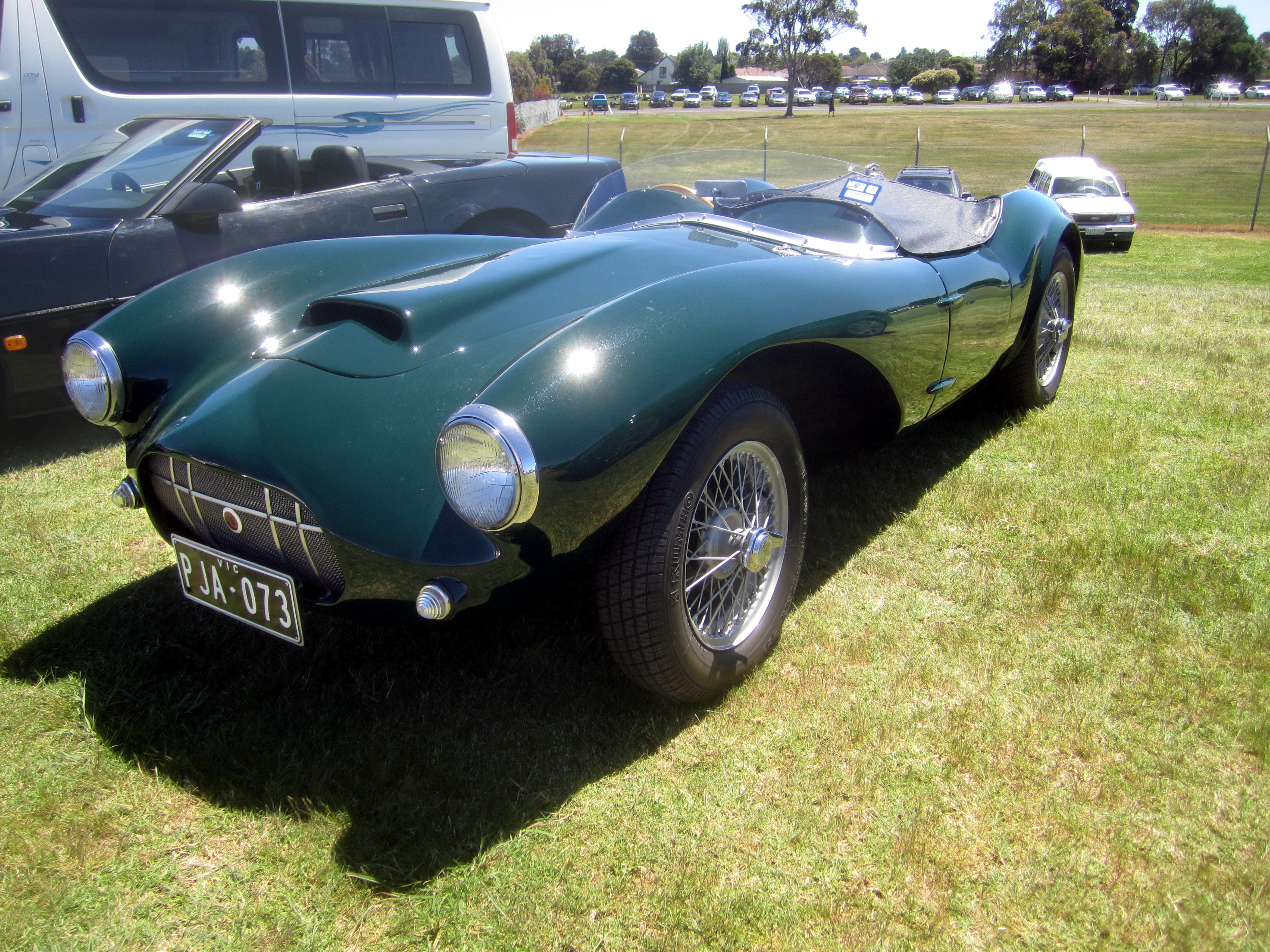 Made by the Buchanan Kit Car company in the 50s. They made AC Cobra styled bodies, using a variety of running gear from quite a few different cars, ie; Triumph, MG, Jaguar, Austin, Ford and Holden. The only production vehicle was the Buchanan Cobra, only 7 were made